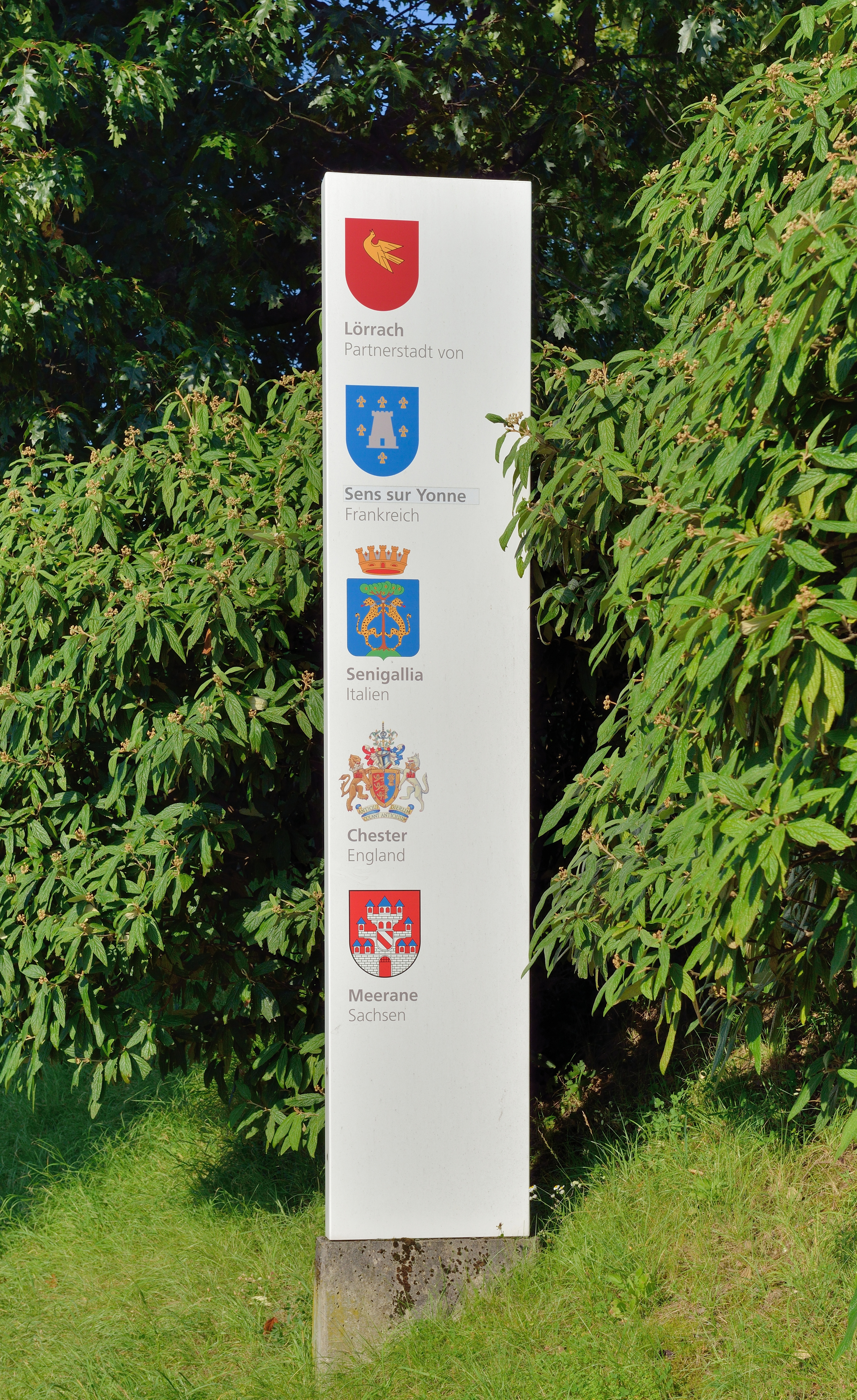 Lörrach: town twinning info stele